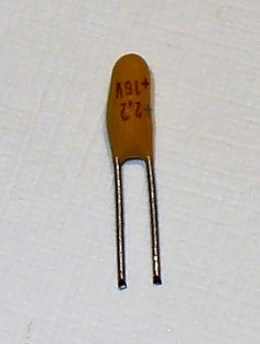 Tantalum bead capacitor